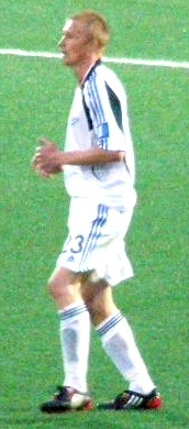 Andriy Husin in action for FC Saturn Ramenskoye